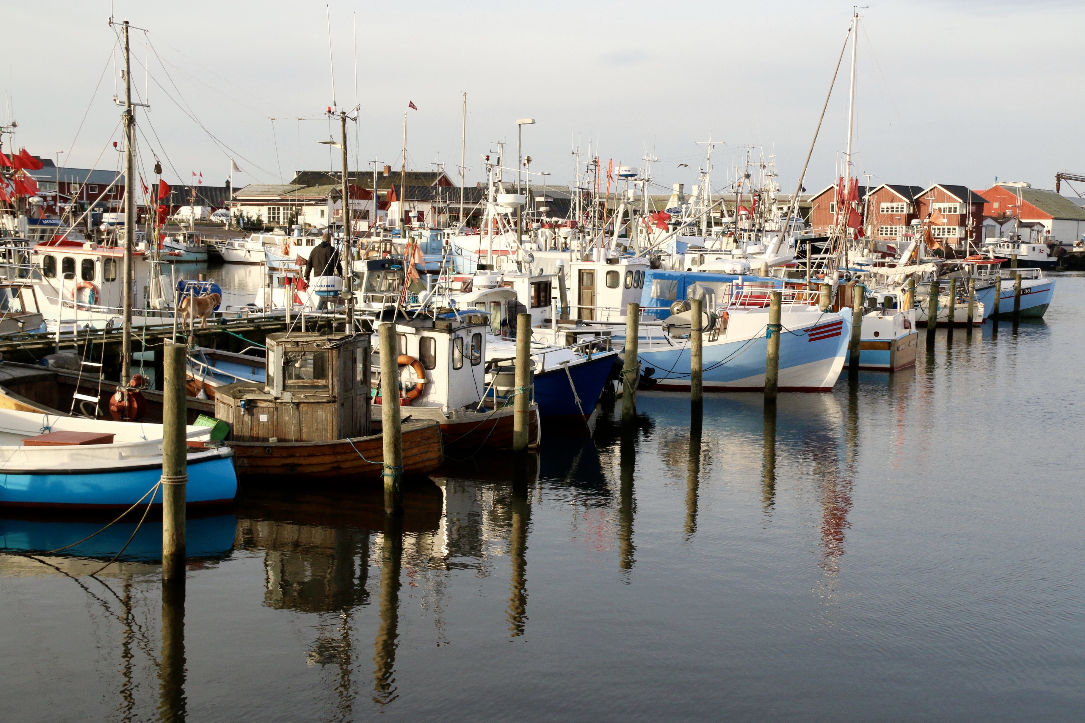 Gilleleje, Denmark Boat Harbour